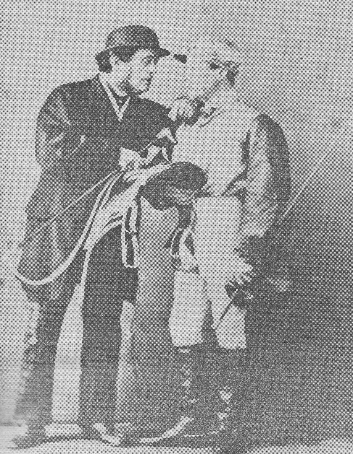 Italian trainer Jacopo Barchielli with a horse rider.